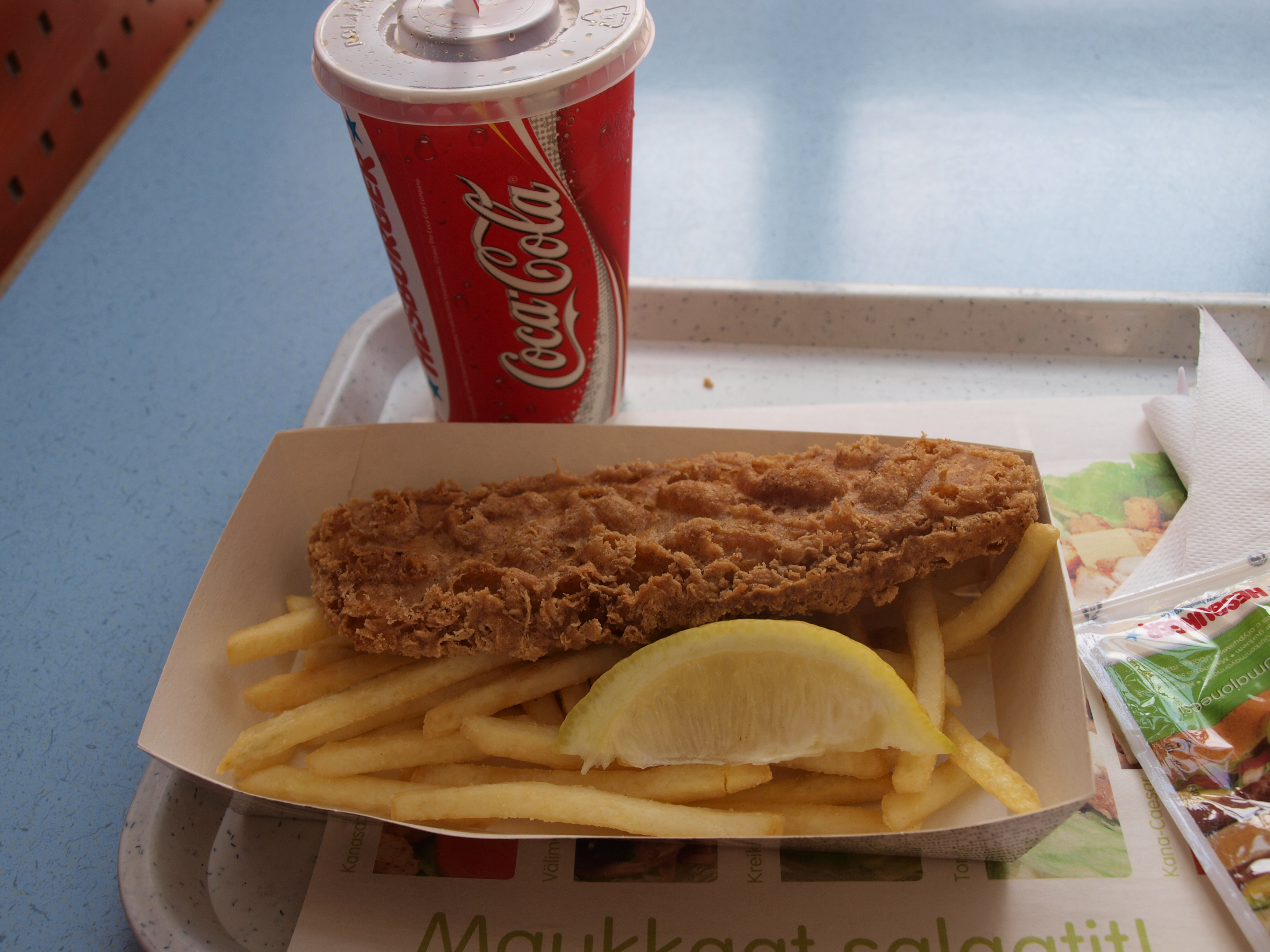 A meal of fish and chips with fresh lemon and mayonnaise, plus a cup of Coca Cola, at a Hesburger restaurant in Finland.